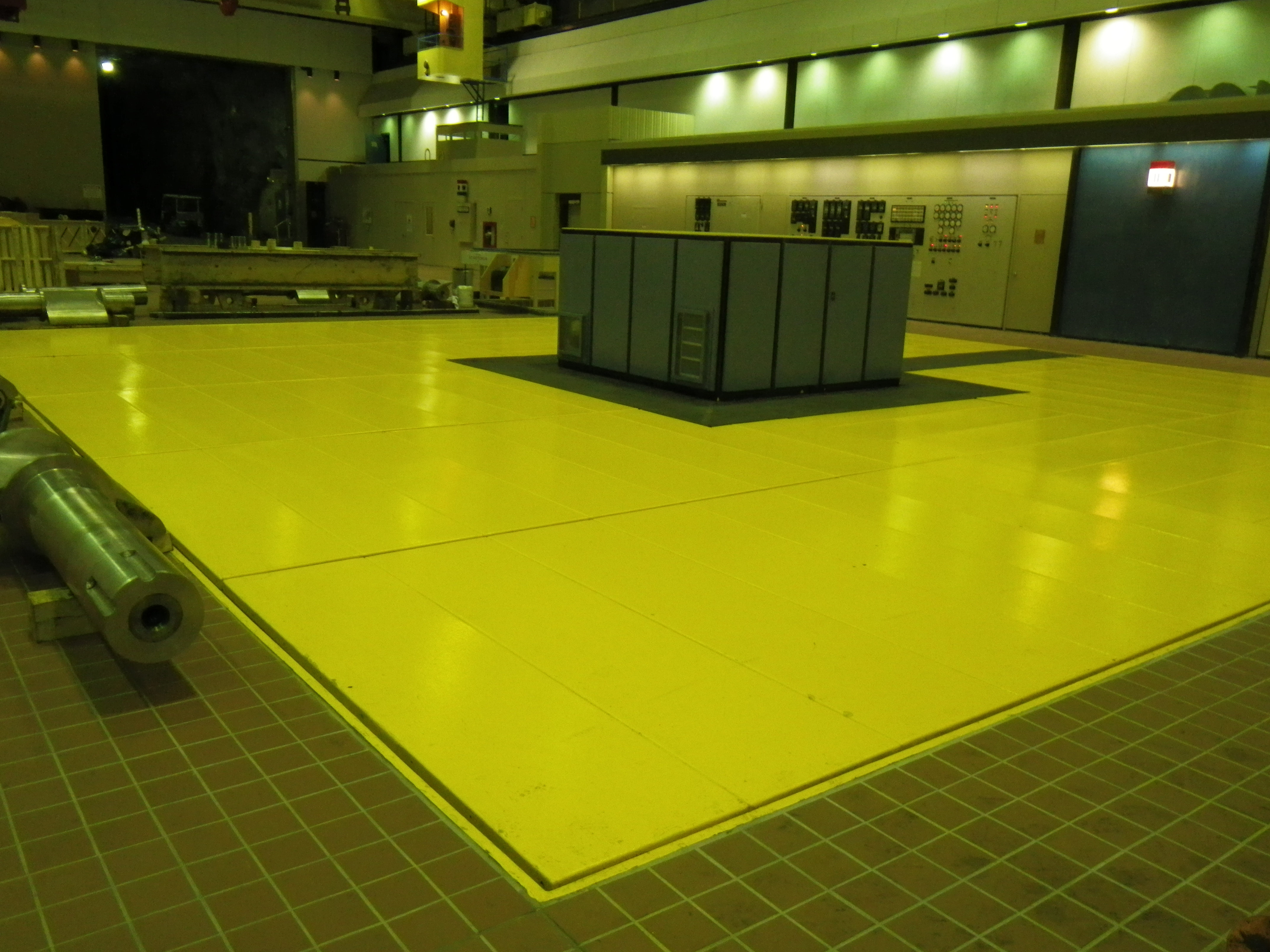 One of the 11 units at the Churchill Falls generating station in Labrador.